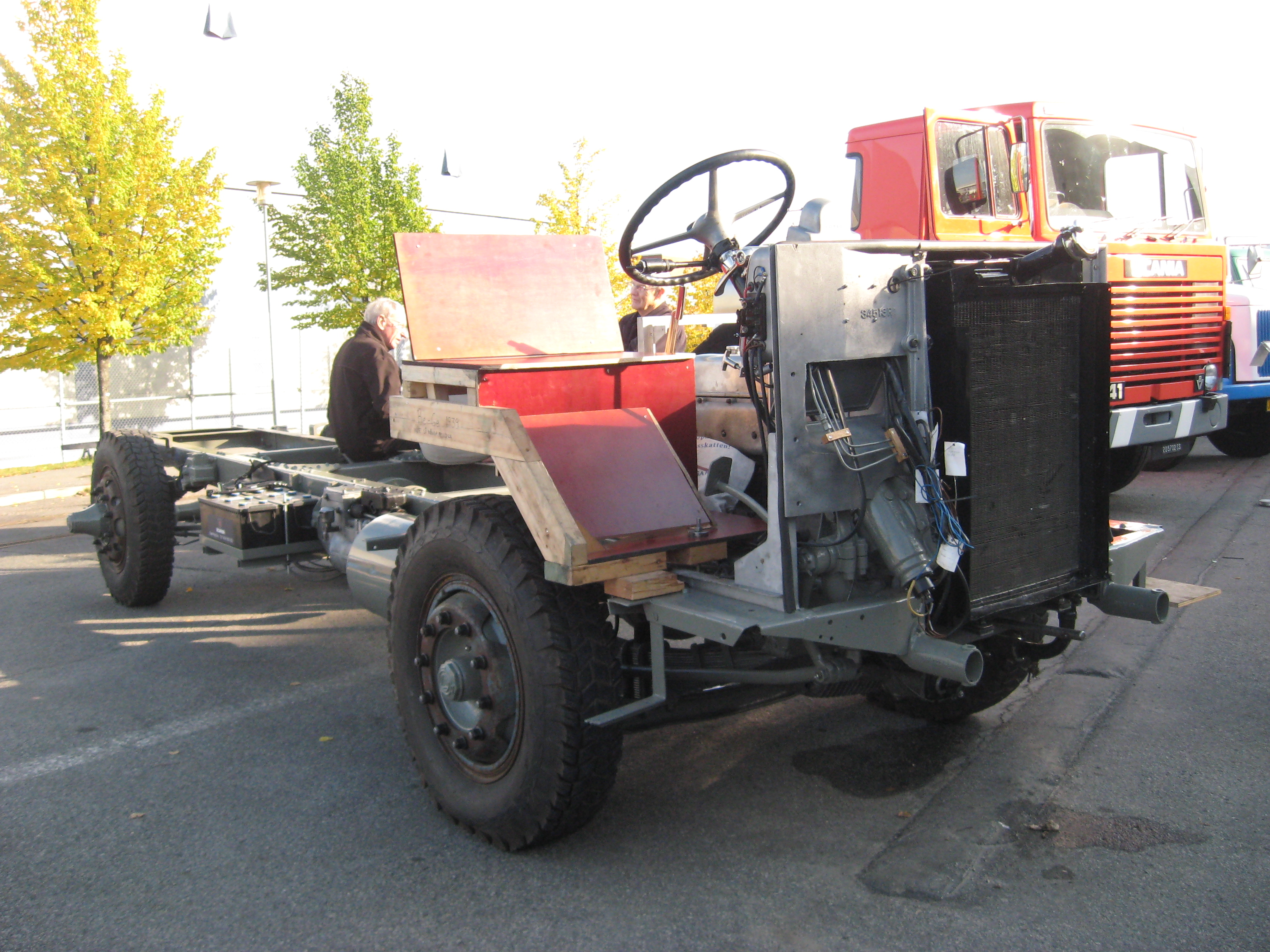 Scania 345132 "Bulldog" (1939) Undergoing restoration.